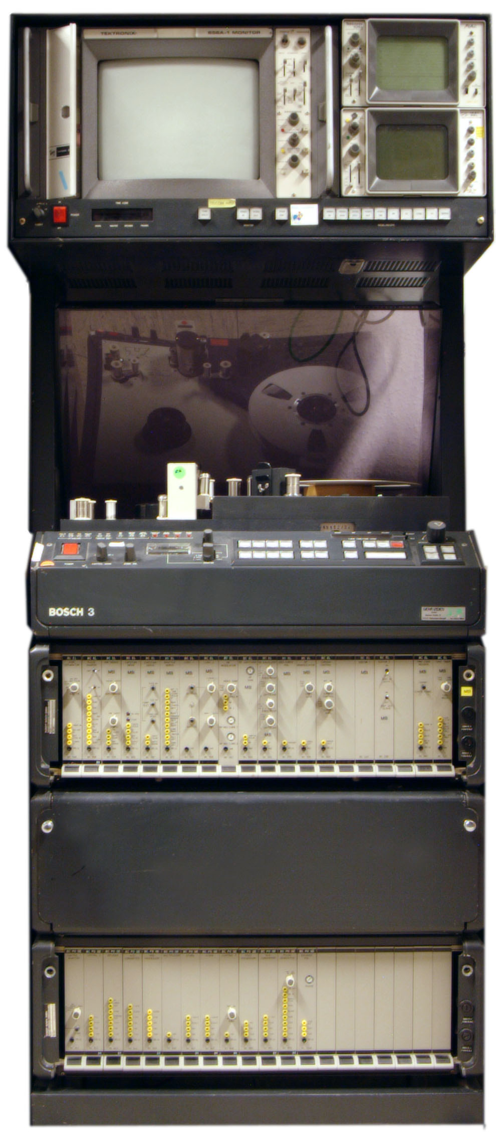 BOSCH 1 Zoll-B-Maschine (BCN 51 Type B videotape recorder.)